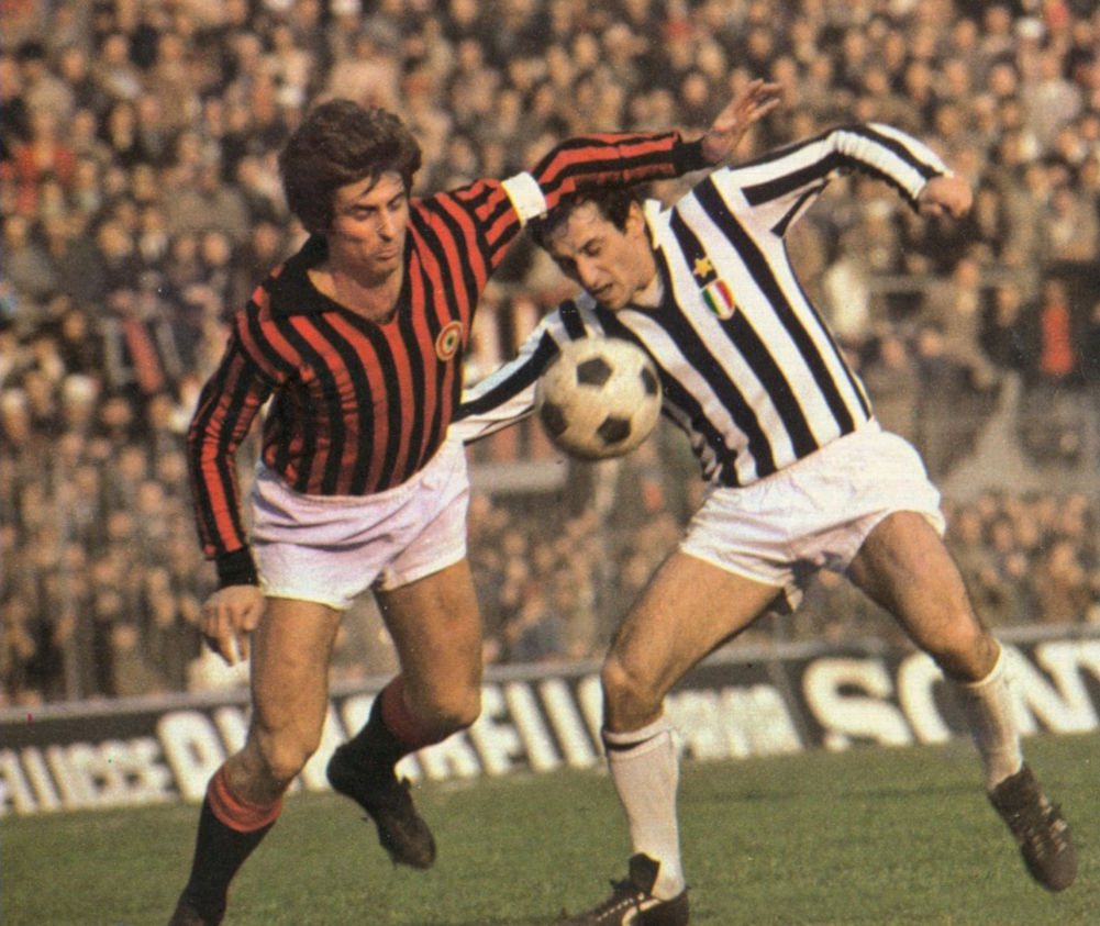 Milan (Italy), San Siro, November 25, 1973. Milan A.C. — Juventus F.C. 2-2, Matchday 6 of the Italian League 1973–74 Serie A; from left to right: Milan's attacking midfielder and captain Gianni Rivera, and Juventus' defensive midfielder Giuseppe Furino.